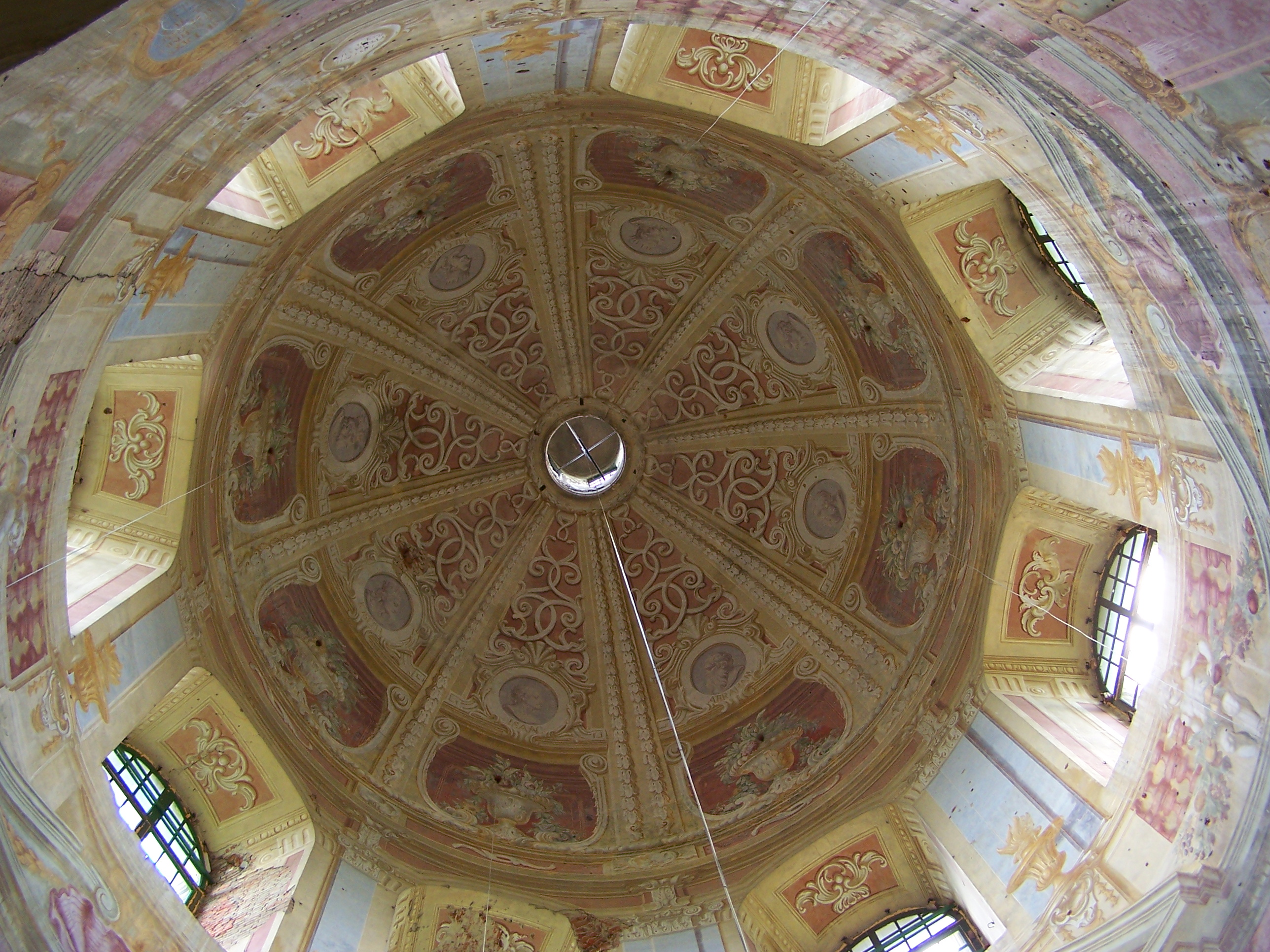 St. Joseph Church in Podhorce (Ukraine).